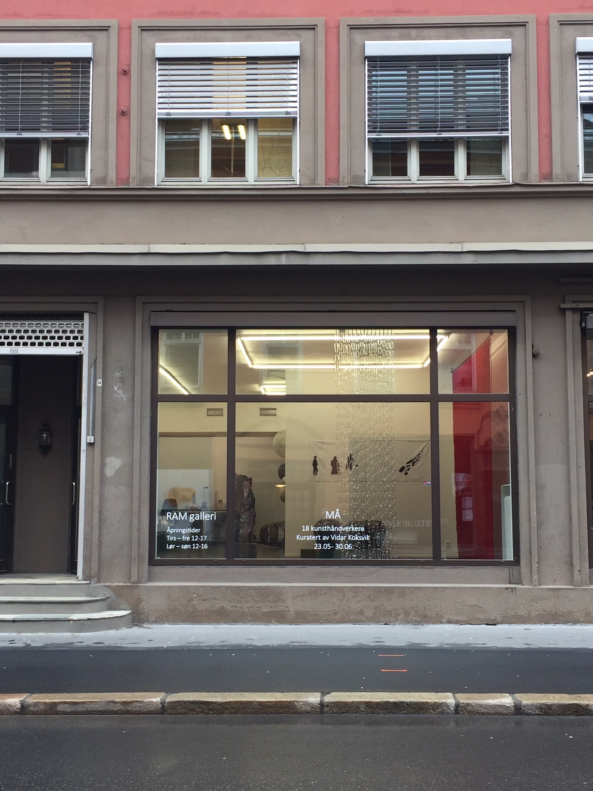 RAM galleri, Oslo, 2019